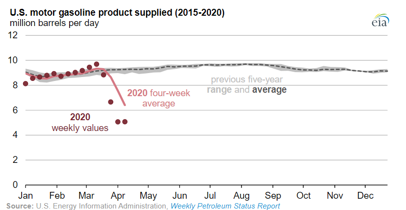 The U.S. Energy Information Administration’s (EIA) Weekly Petroleum Status Report (WPSR) provides the most comprehensive weekly data available for U.S. crude oil and refined petroleum product balances. The WPSR includes detailed regional and national supply information each week on crude oil, as well as motor gasoline, distillate fuel oil, jet fuel, residual fuel, and propane (the major petroleum products used in the United States). Using the most recent WPSR data, this chart compares current estimates of U.S. gasoline consumption during the COVID-19 pandemic to typical levels for this time of year. April 16, 2020